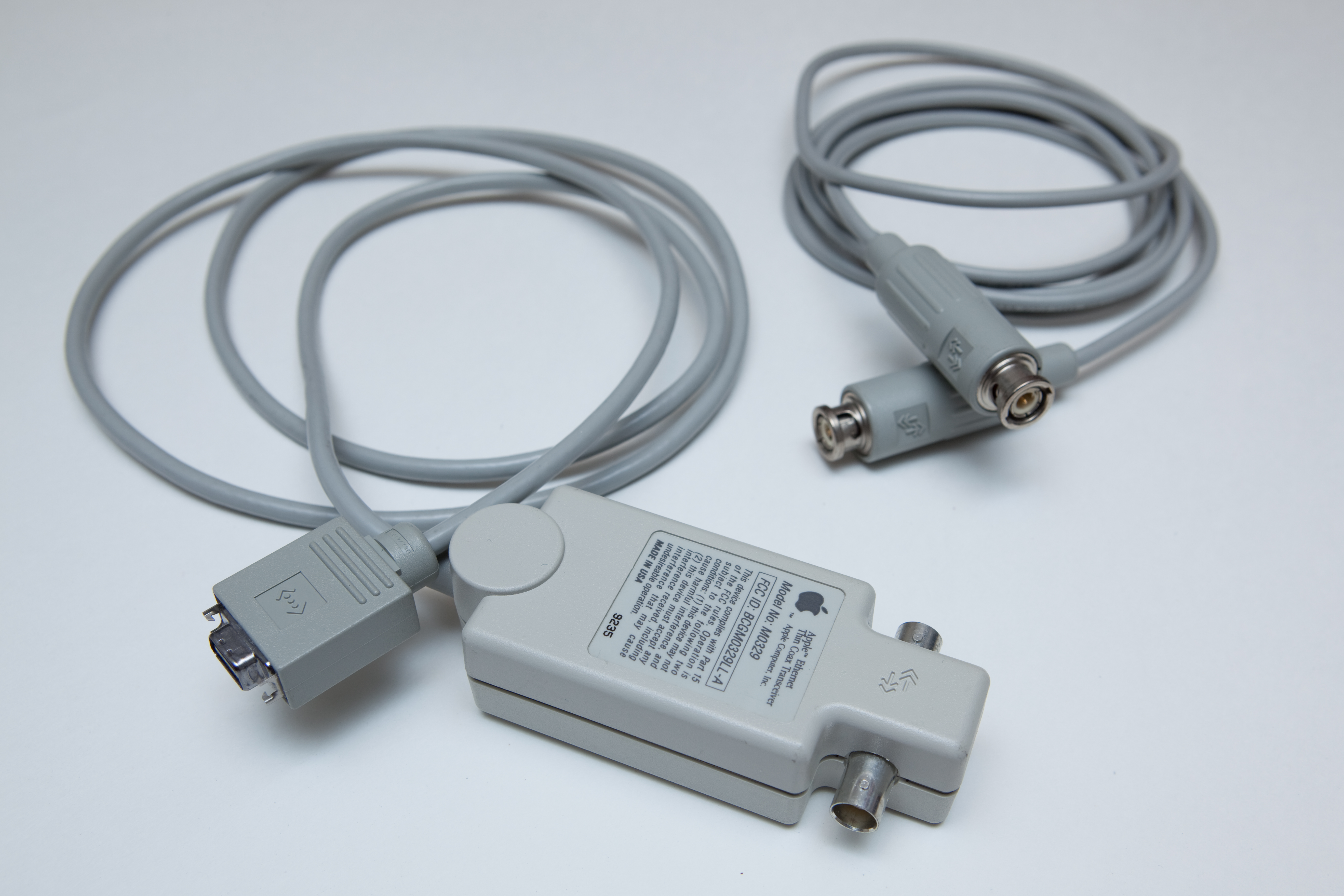 Apple 10BASE2 AAUI (Friendlynet) transceiver and Apple cable. Note rectangular sheath over small D-shaped AAUI connector. Note very large ends on 10BASE2 cable which contain a mechanical system which auto terminates the cable end if it is not attached to a device.